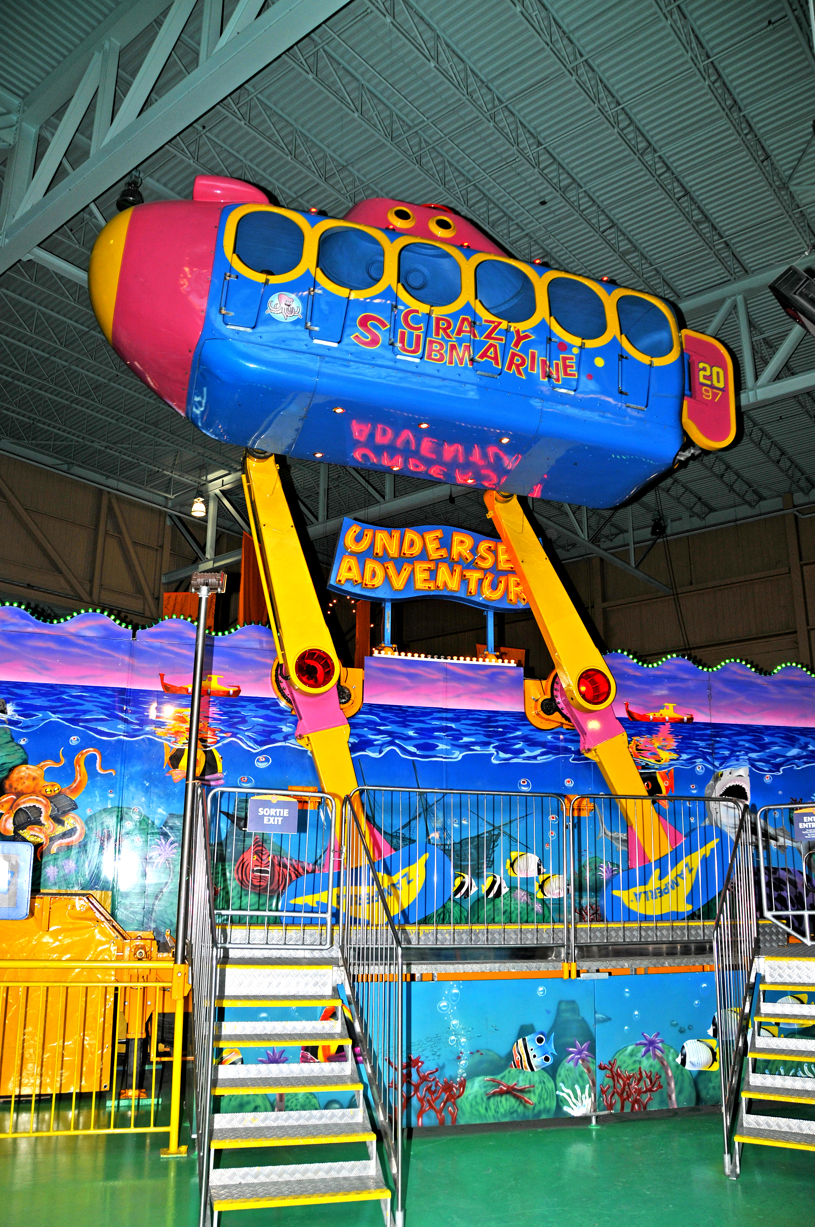 PLEASE, no multi invitations in your comments. DO NOT FEEL YOU HAVE TO COMMENT.Thanks. Yesterday I took my daughter and grand children to an amusement place in Dieppe, New Brunswick. There is not a lot there but it was a day out and it is inside out of the cold. It is about a two and a half hour drive each way but the kids enjoyed it.